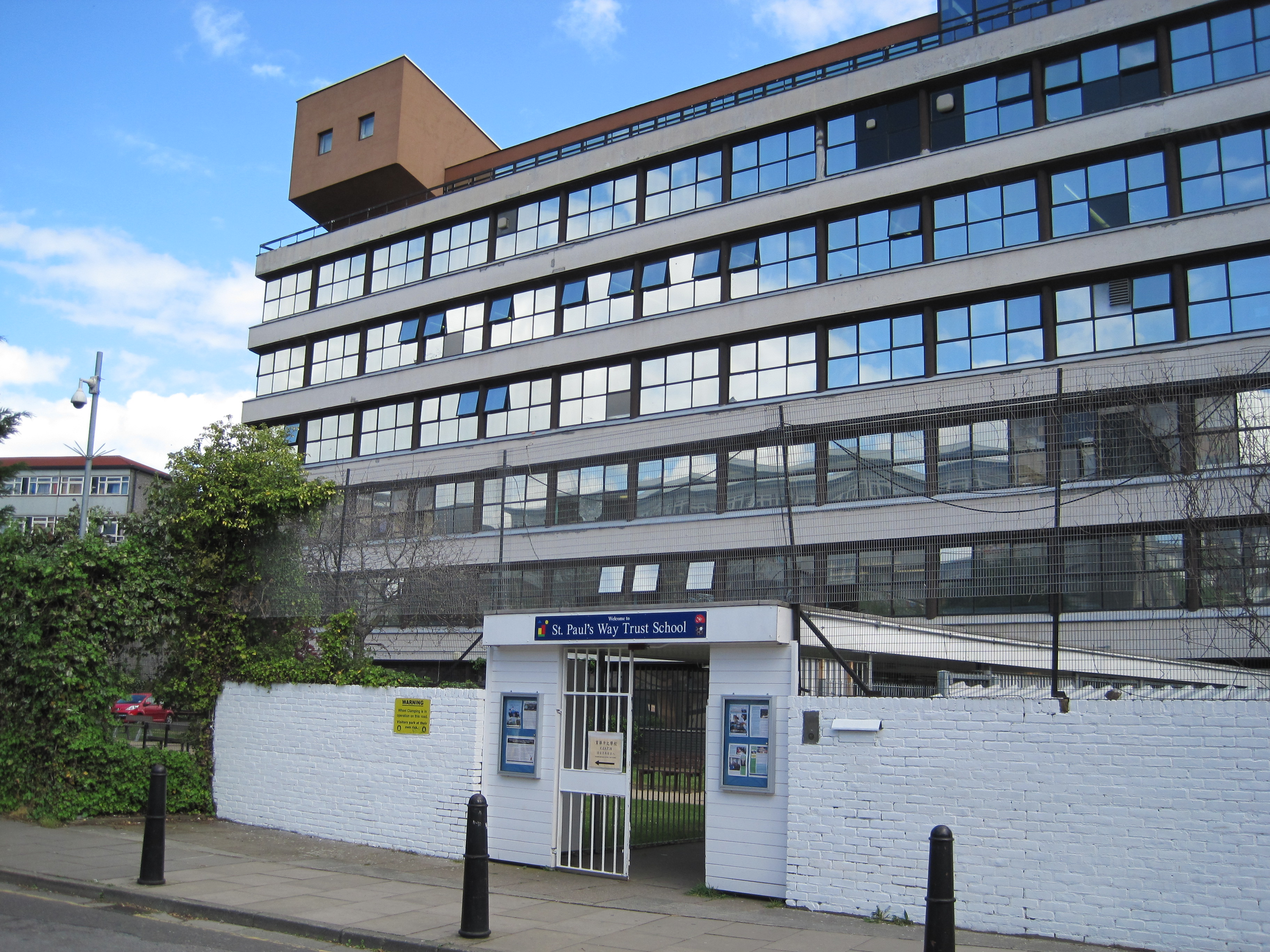 St Pauls Way School in Tower Hamlets, 1960s building